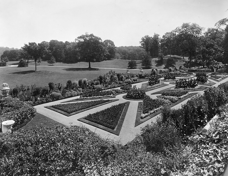 Crop of File:Rockwood Hall, Tarrytown, New York LCCN2010646131.jpg Title: Rockwood Hall, Tarrytown, New York Abstract/medium: 1 photographic print.